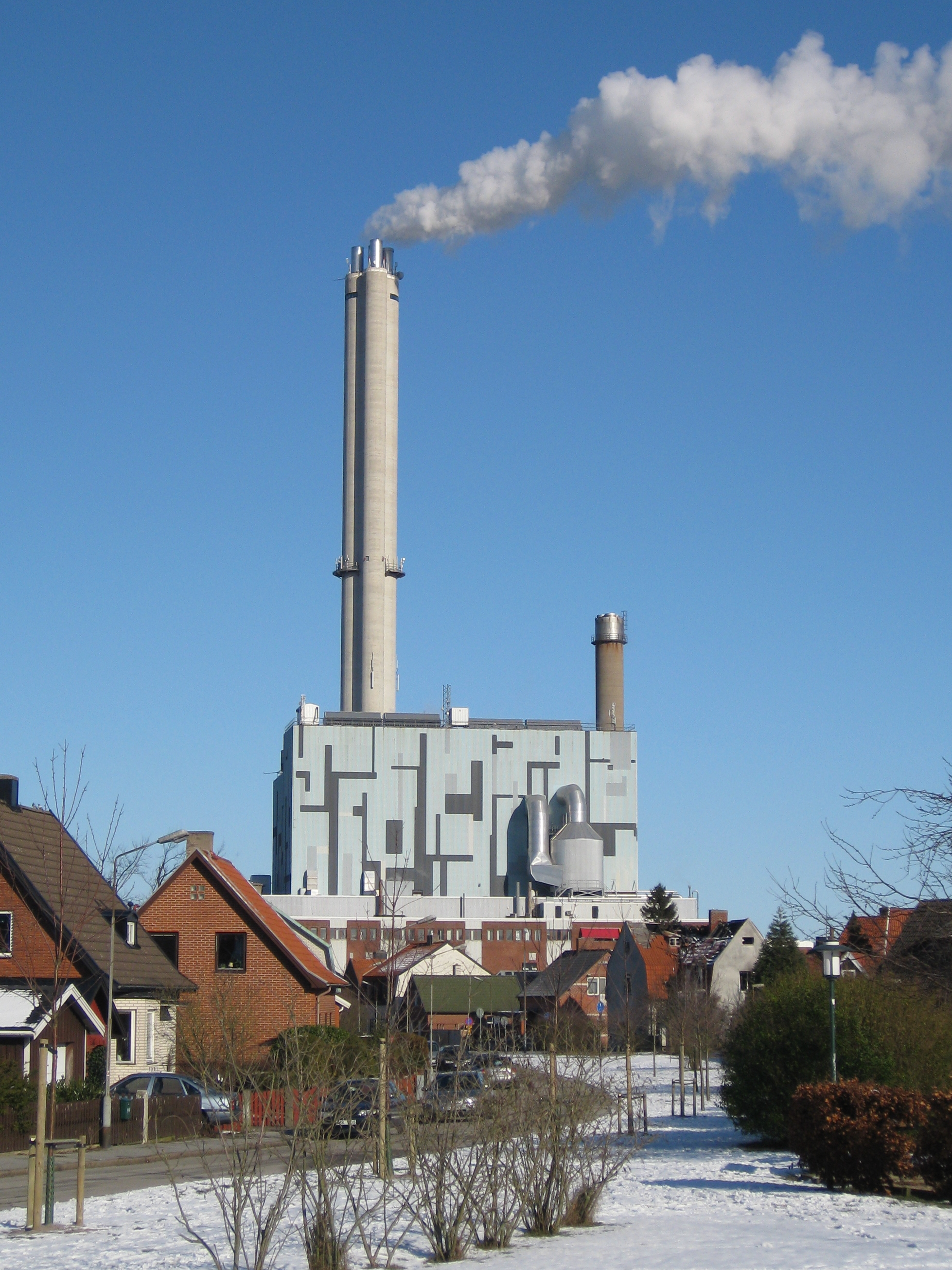 The Heleneholm district heating plant in Malmö, Sweden